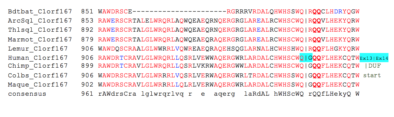 Screenshot of MSA without red lines